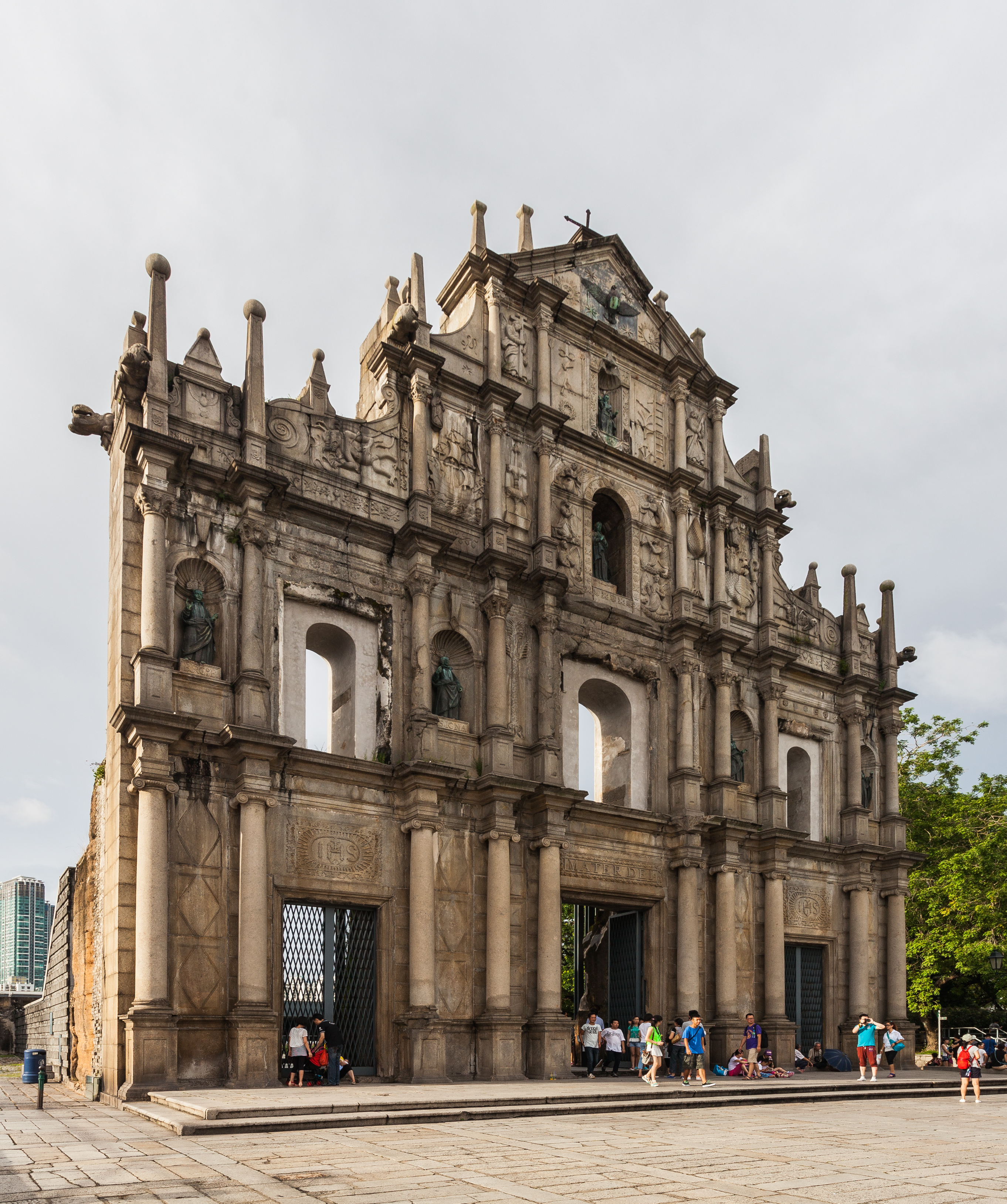 Remains of the Cathedral of Saint Paul, Macau